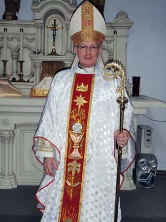 A bishop in traditional white apparel for Mass: white chasuble, mitre, crozier and episcopal ring.